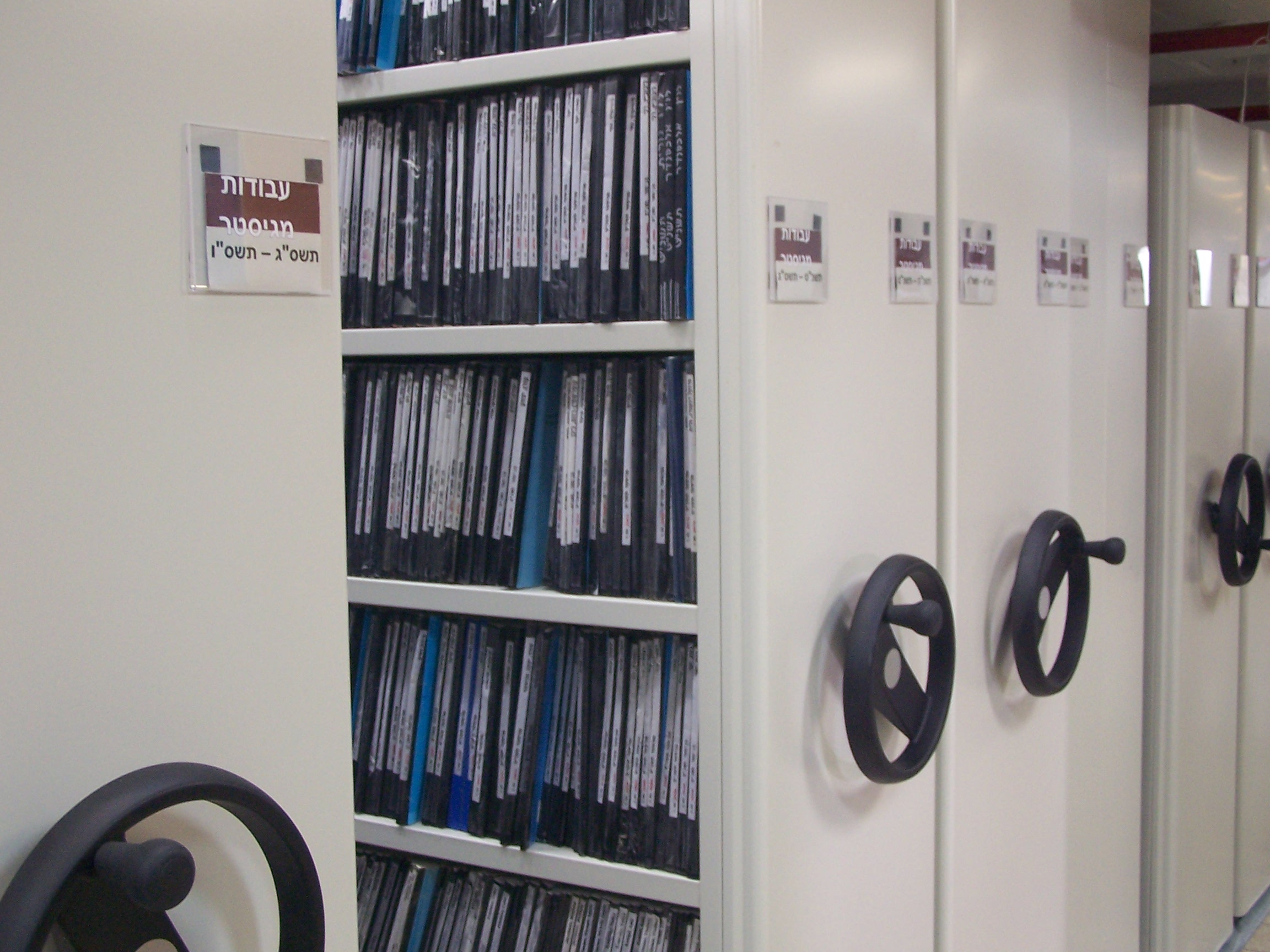 Technion theses archived in the Elyachar Central Library of the Technion.